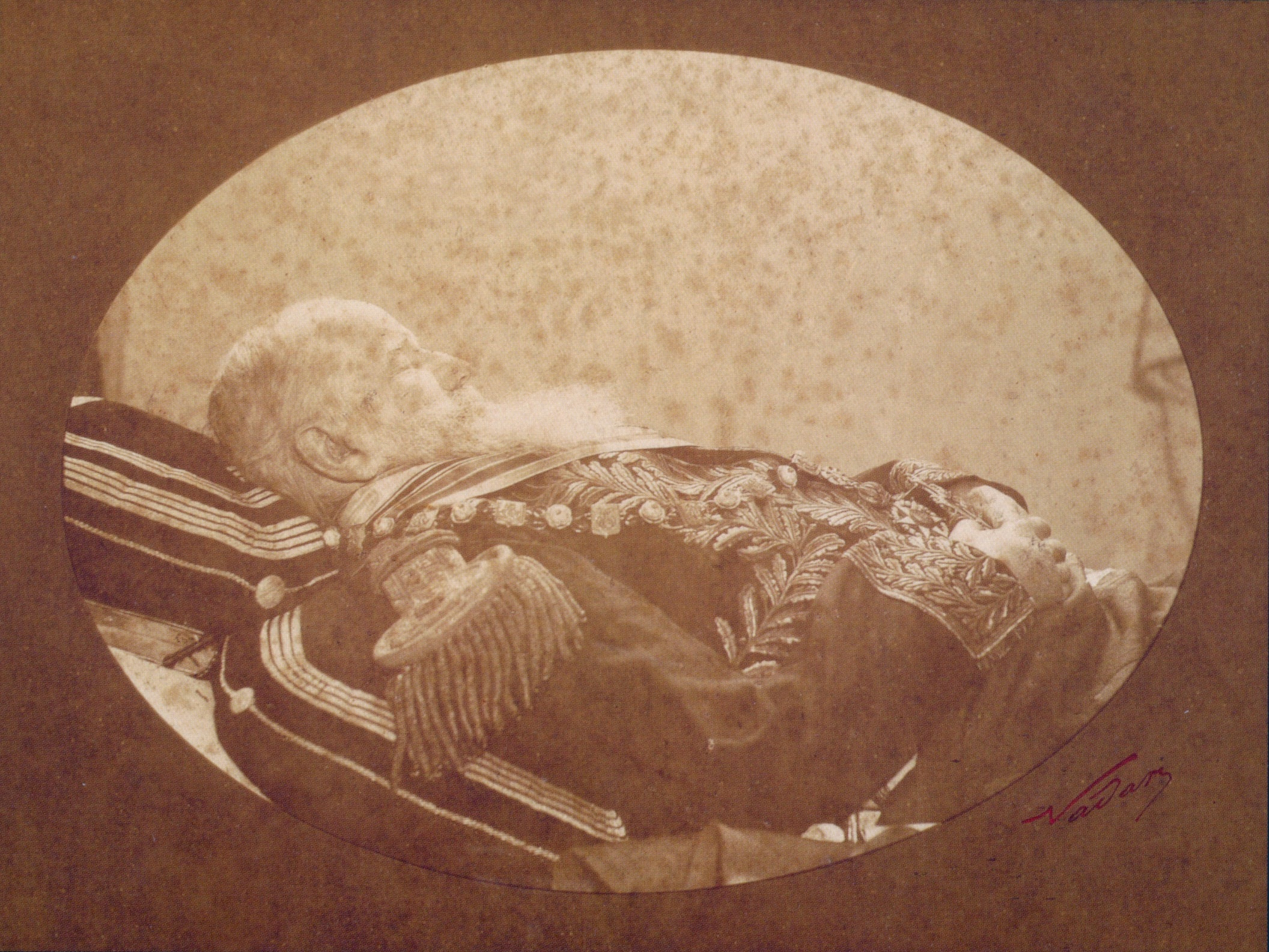 Pedro II of Brazil dead, 1891.